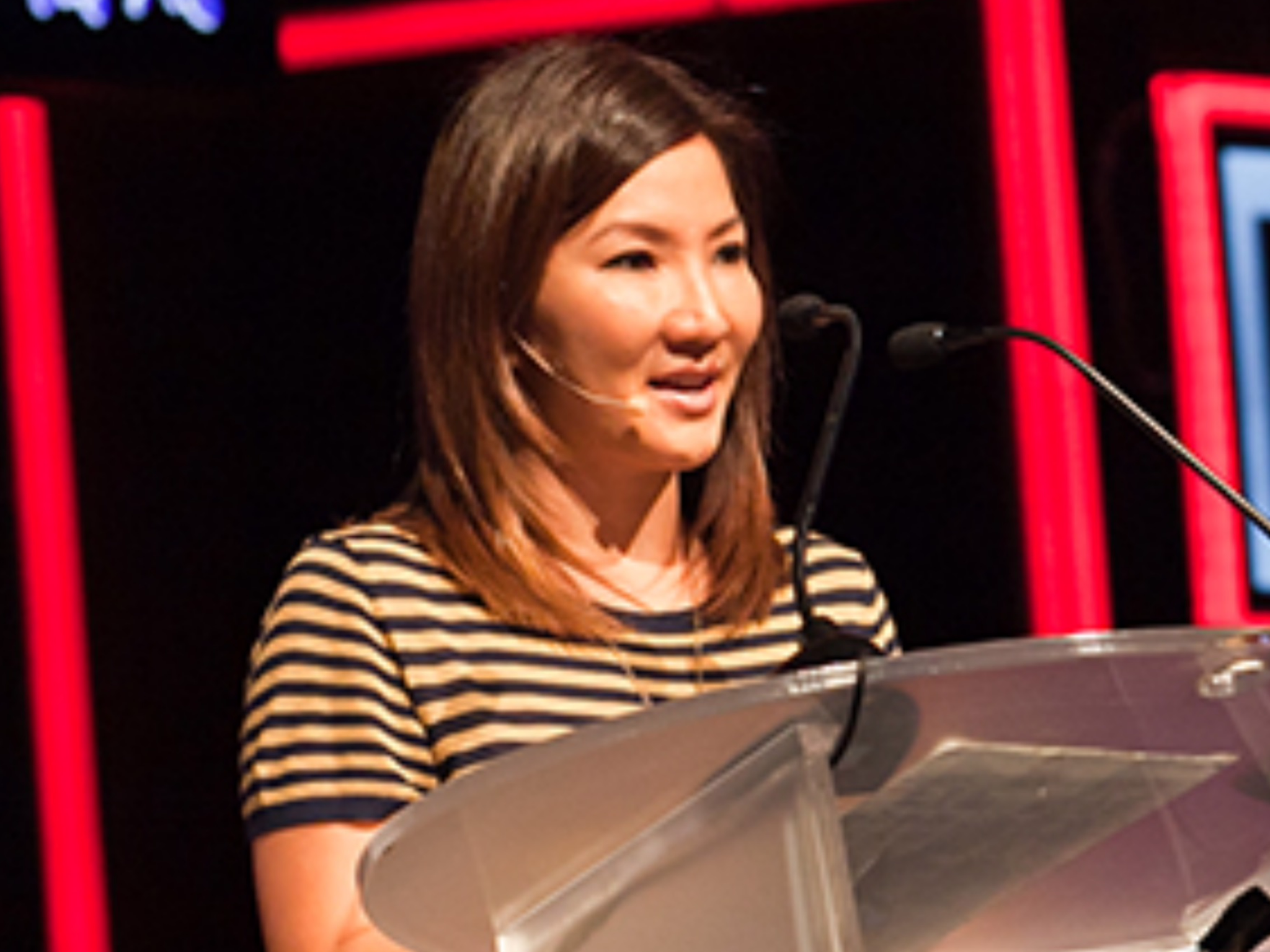 Taken at CapitalMall retail forum during a public event